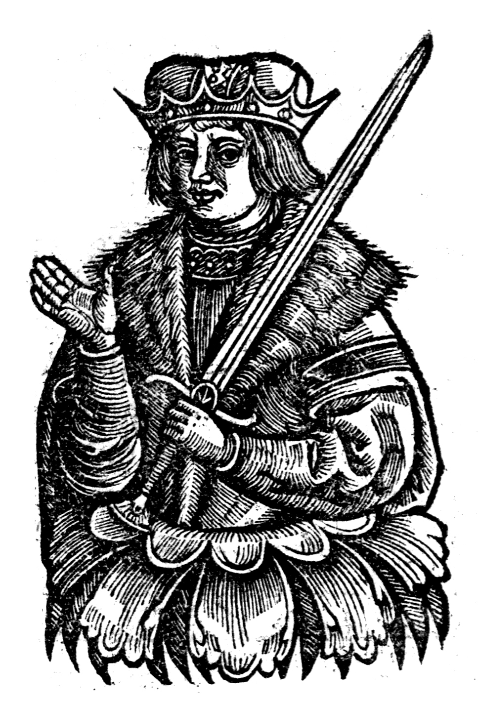 Lech II in Chronica Polonorum